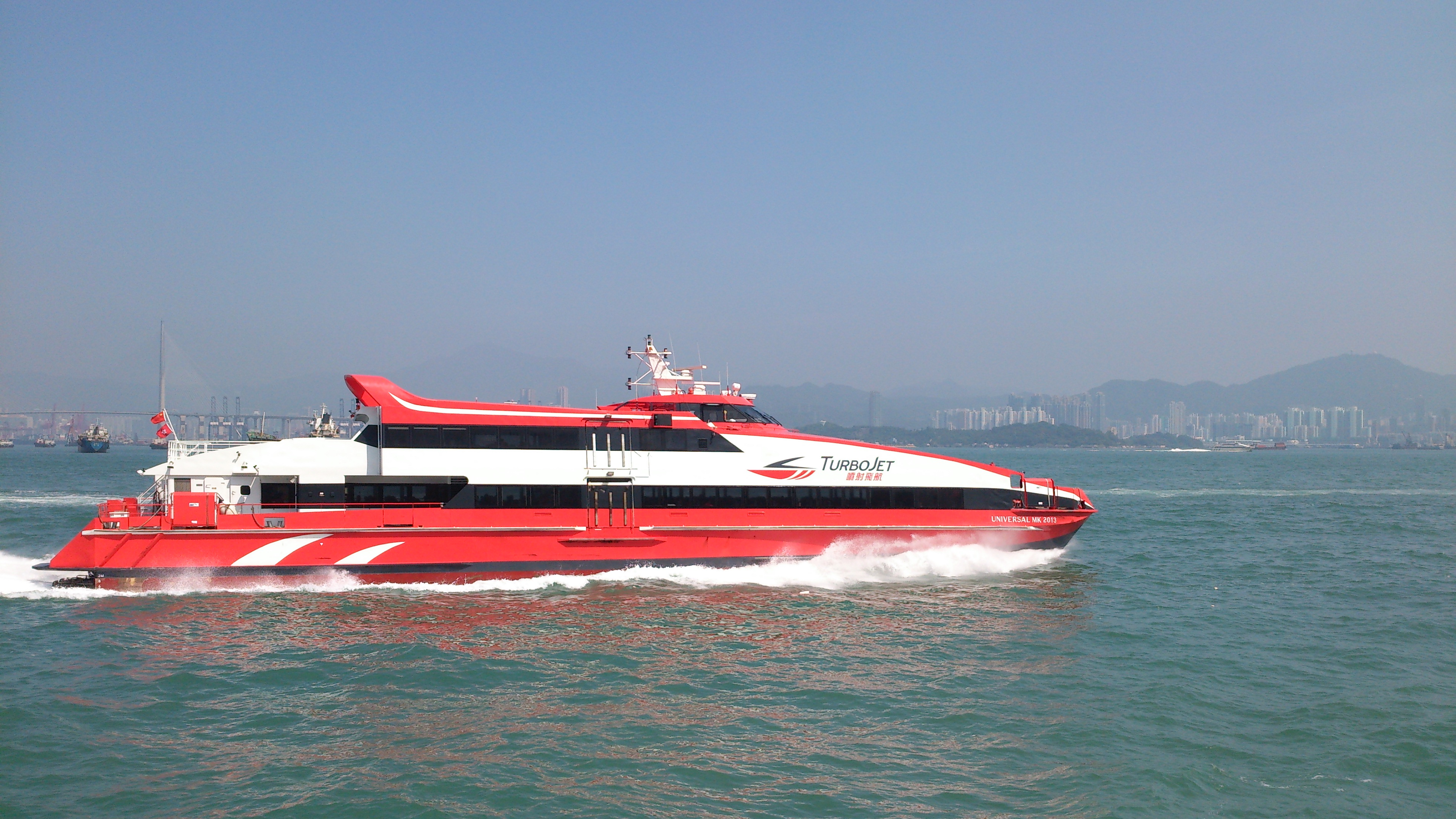 Passenger Ferry, connecting Hong Kong to Macau, run by TurboJET.